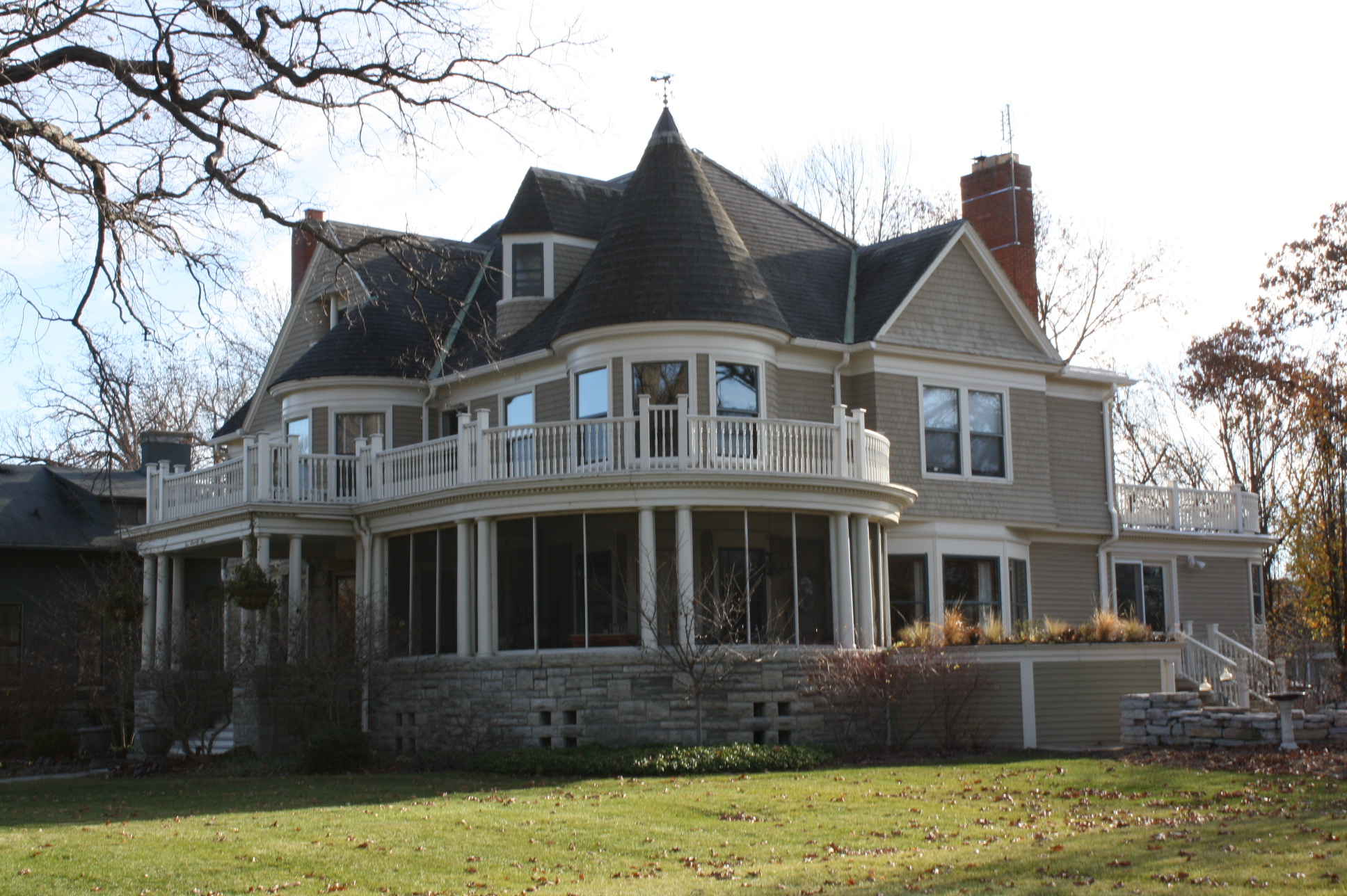 The George O. Bergstrom House in Neenah, Wisconsin. It is listed on the National Register of Historic Places.